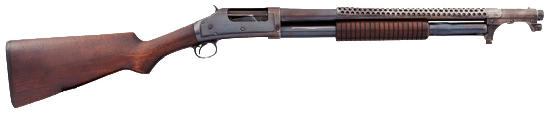 Winchester M1897 Trench Gun